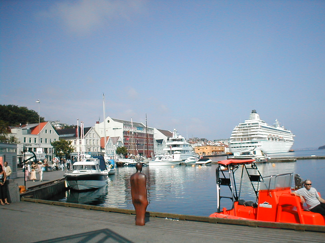 The inner harbour of Stavanger with a sculpture by Antony Gormley looking outwards.